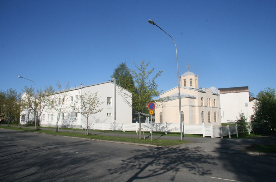 Joensuu orthodox seminary